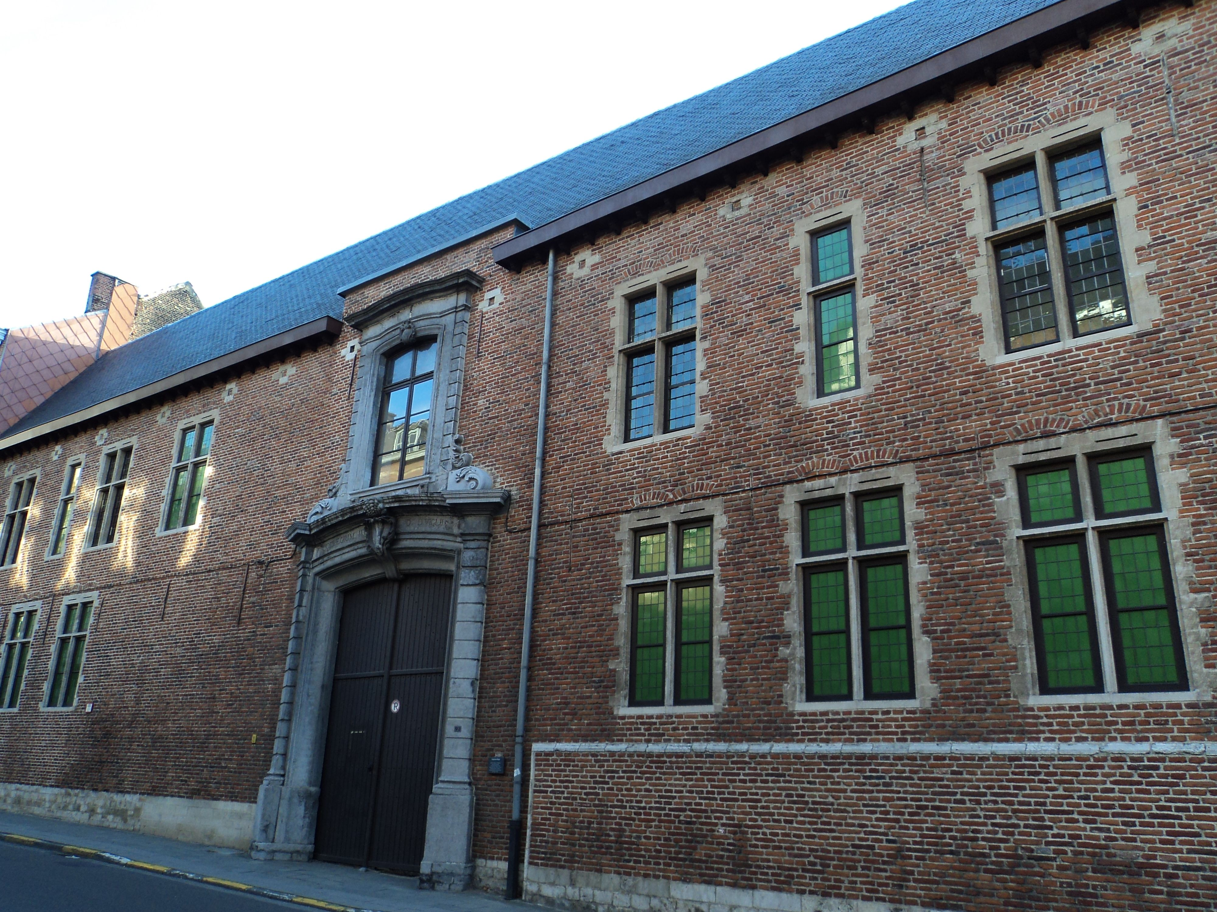 Viglius College, Naamsestraat 97, Leuven, Belgium